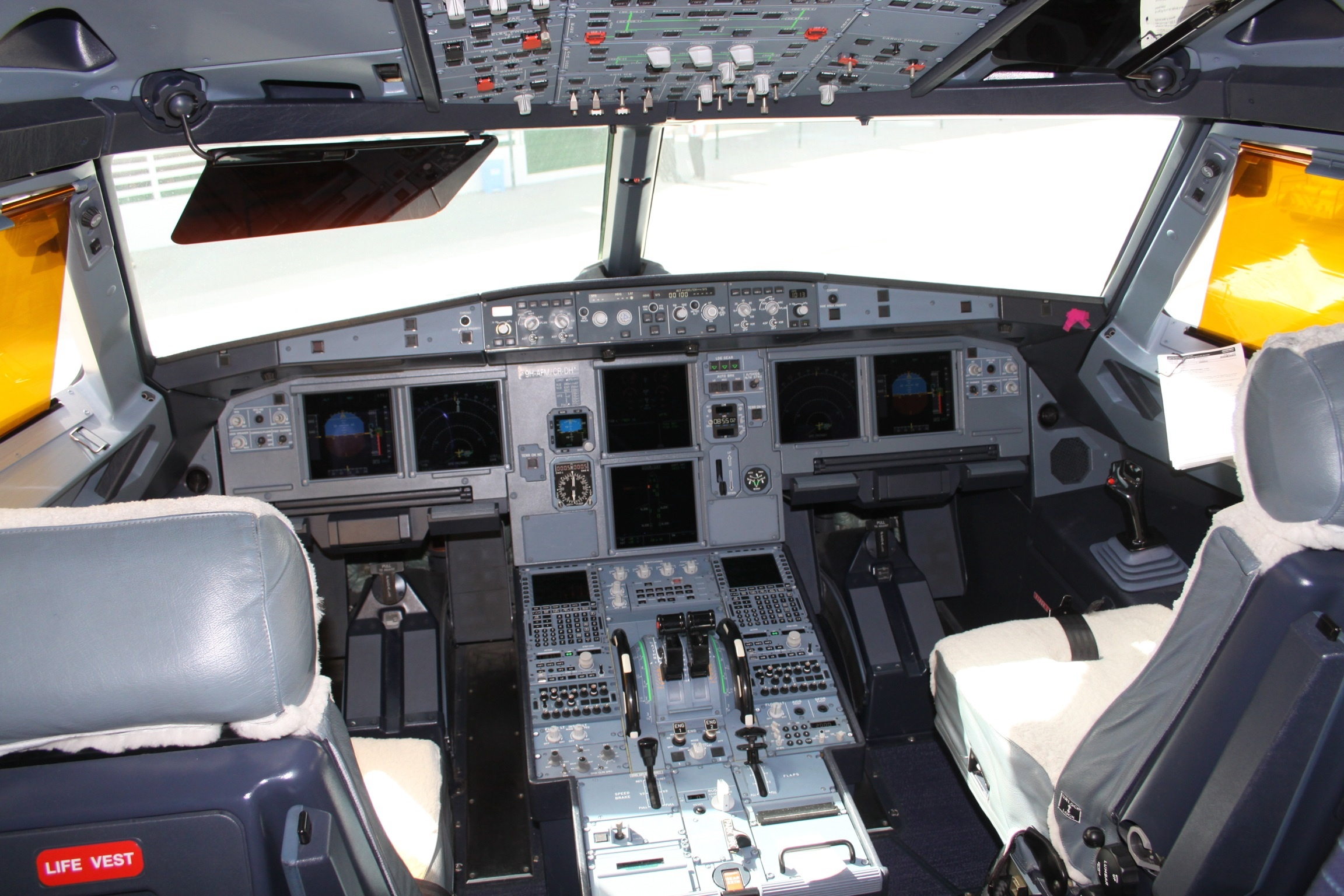 At Dubai